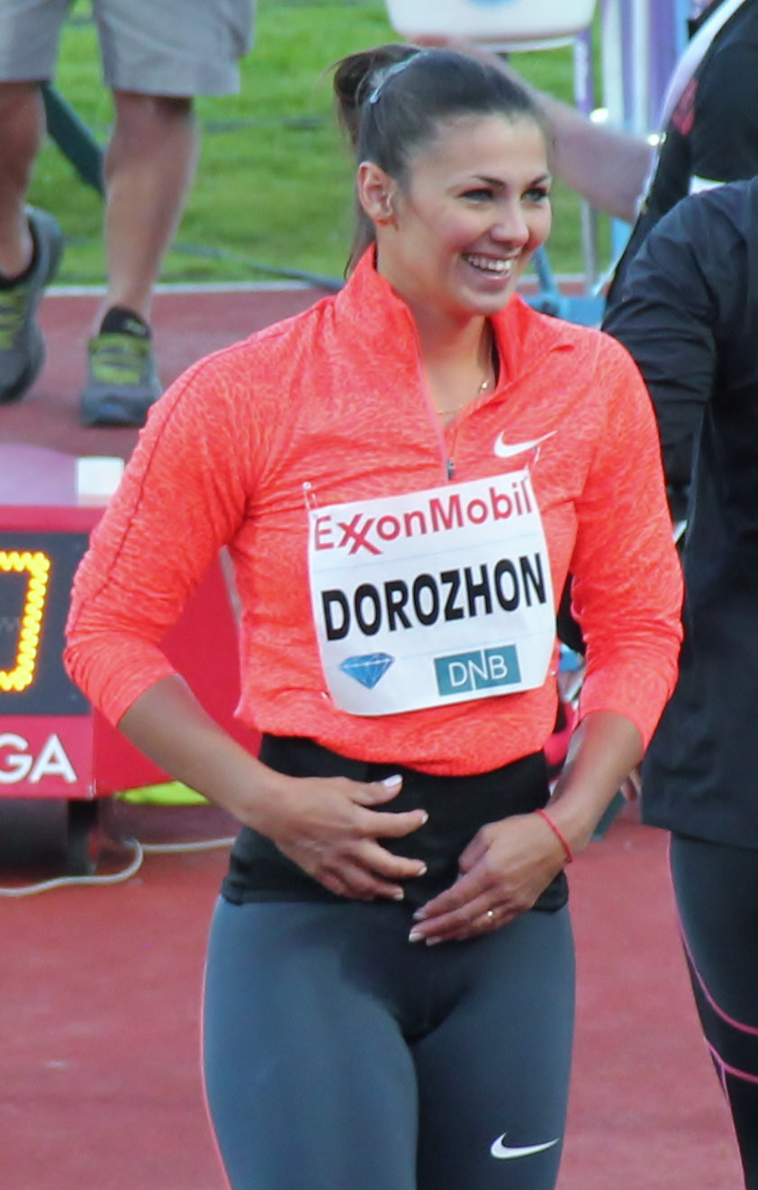 Marharyta Dorozhon at the 2015 Bislett Games